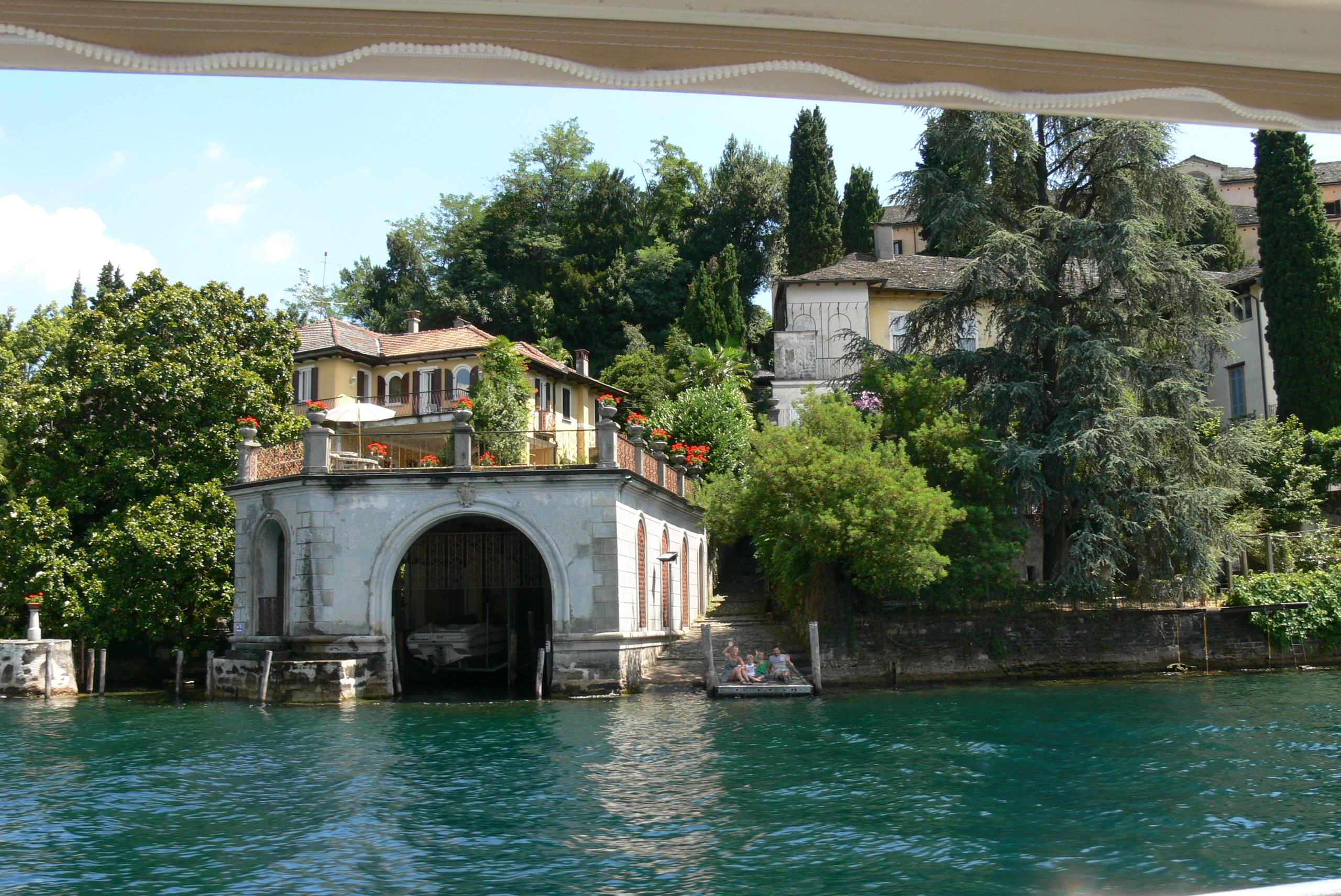 Orta - Isola San Giulio ( Piedmont ). Palazzo with boat house.